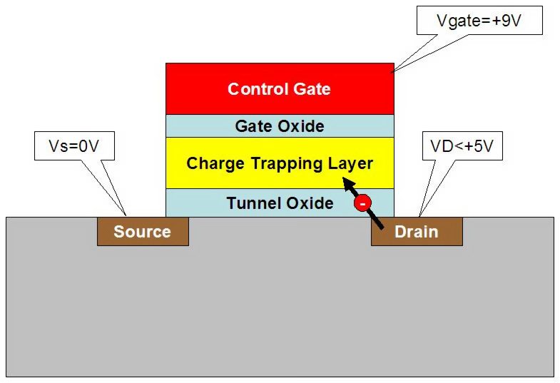 Cross section of a charge trapping memory cell being programmed using hot electron injection